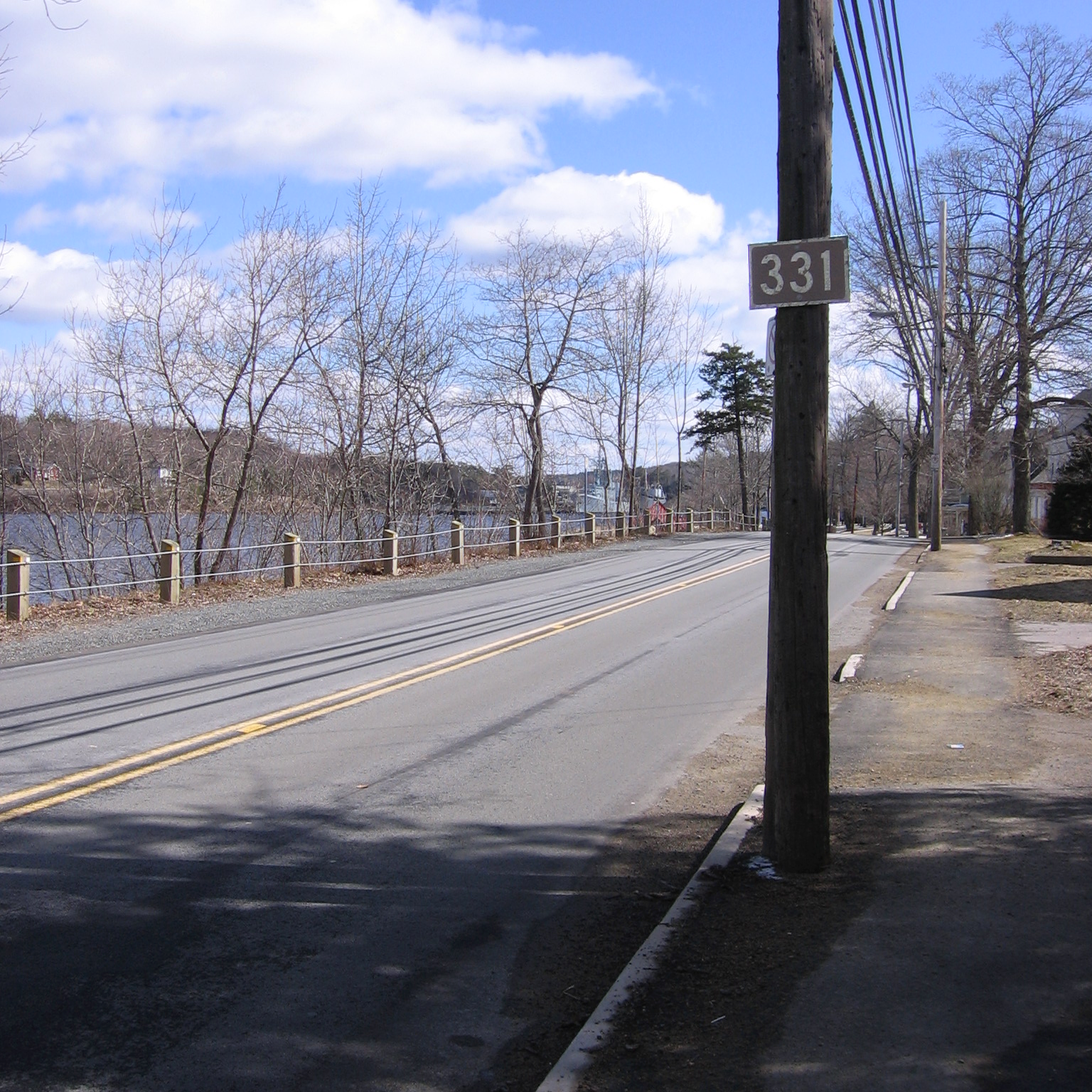 Photo of NS Route 331 in Bridgewater, NS